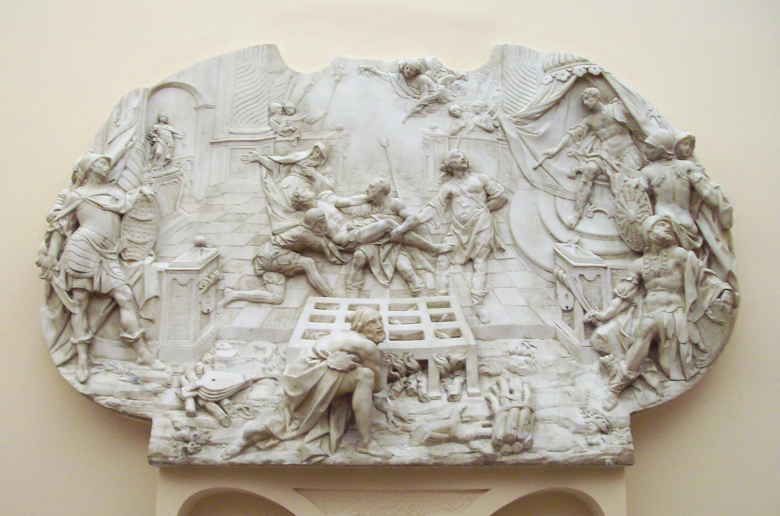 Relief sculpted to adorn the main corridor of Madrid's Royal Palace. Emperor Valerian is represented at the right.